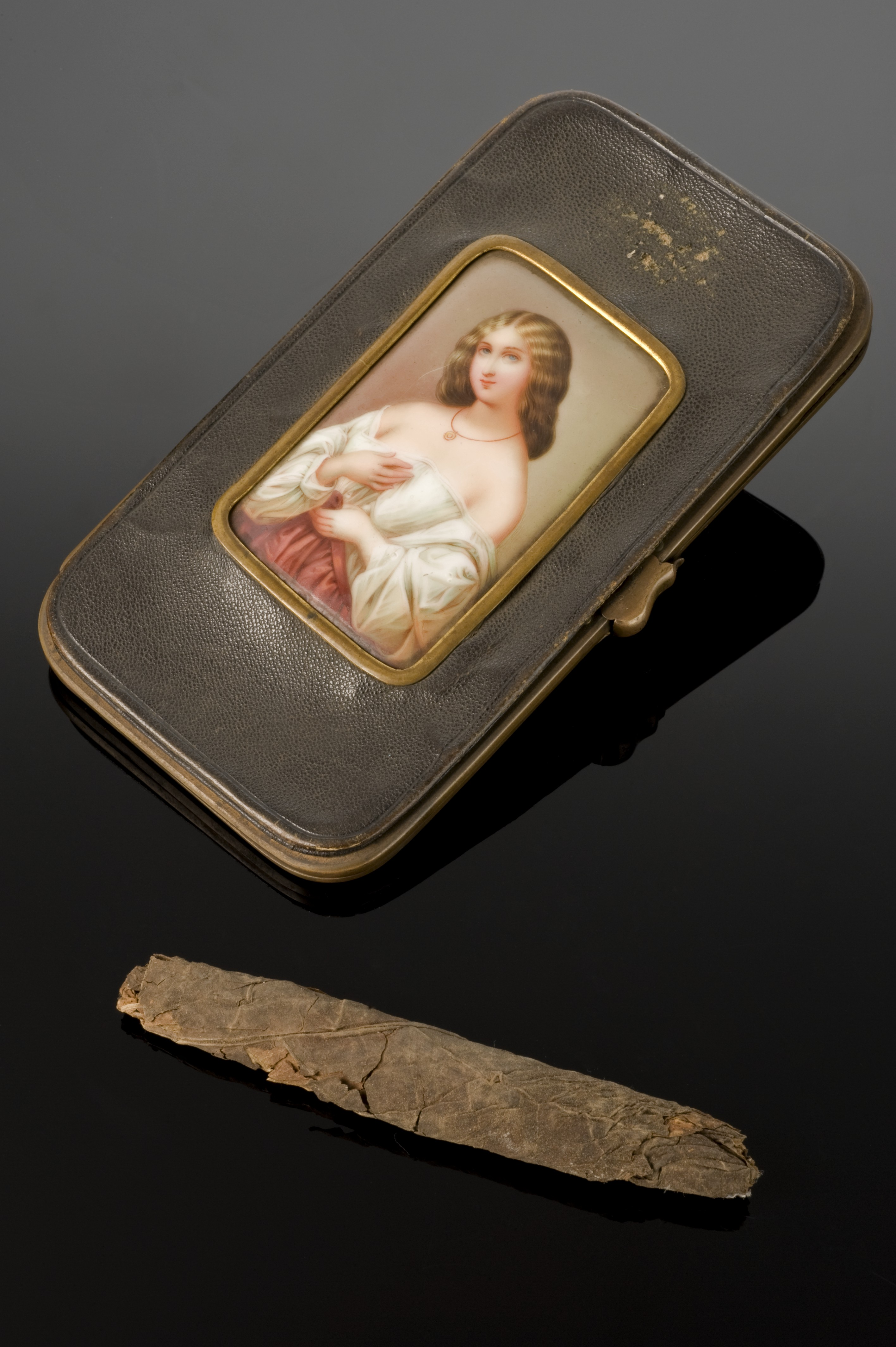 What’s your poison? Finely painted onto porcelain, a pretty, young, slightly saucy woman adorns this Victorian cigar case. It still contains a single un-smoked cigar. It’s attractive, but is it remarkable? Might knowing who once owned this object change the way you look at it? Could this seemingly innocent object have a sinister past? We may associate smoking with premature death, but this cigar case has other lethal associations. It was once the property of William Palmer. Physician, racehorse owner, gambler……and killer. The so-called “Prince of poisoners”, one of the most notorious figures of the Victorian period. As a doctor, Palmer was expected to adhere to the spirit of the Hippocratic Oath – to abstain from doing harm to others. Instead, he broke it. This good doctor turned bad was convicted for one murder, but he may have committed another ten – at least. A charming rogue more interested in fine cigars and gambling than medicine, he was constantly in debt. In late 1855, a large win on the horses by his friend John Parsons Cook offered a way out. Within days Cook died in agony, from what was later described as strychnine poisoning. Palmer was prosecuted the following year. His trial caused a sensation, particularly when it was suggested he’d killed many others, including his wife and brother. It was even said that he murdered some of his children by getting them to lick a mixture of honey and arsenic from his finger. Such was his infamy, the pub refrain of “what’s your poison?”, is believed to be inspired by his exploits. He was publicly hung in front of a crowd of 30,000. And yet. A few scholars point to the circumstantial nature of the evidence, the prejudicial attitude of the judge and the public clamour against Palmer. Was he fairly treated? Could he even be innocent? Probably not, but would your perception of this object change again it he was? maker: Unknown maker Place made: France Wellcome Images Keywords: controversies and medicine; cigar case